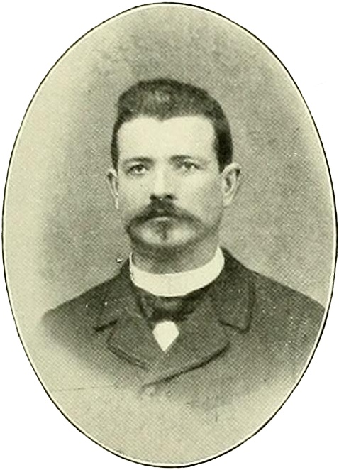 Portrait of the botanist François Gagnepain